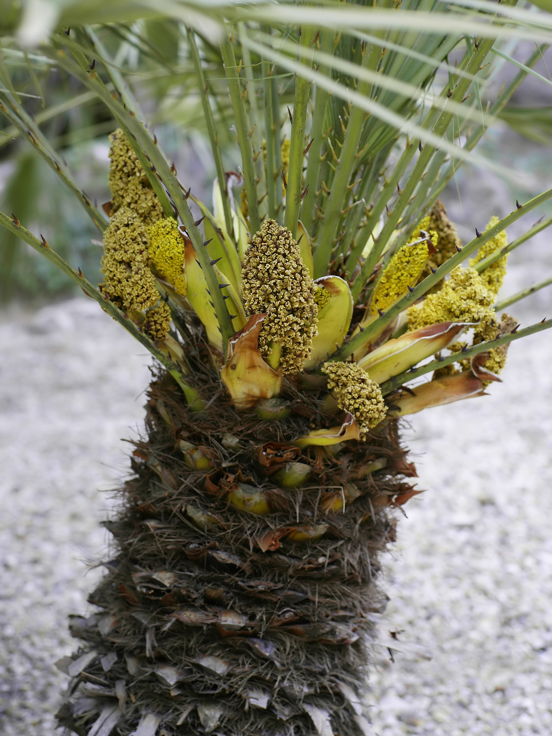 Plant near Font de Tita, el Perelló, Catalonia, Spain